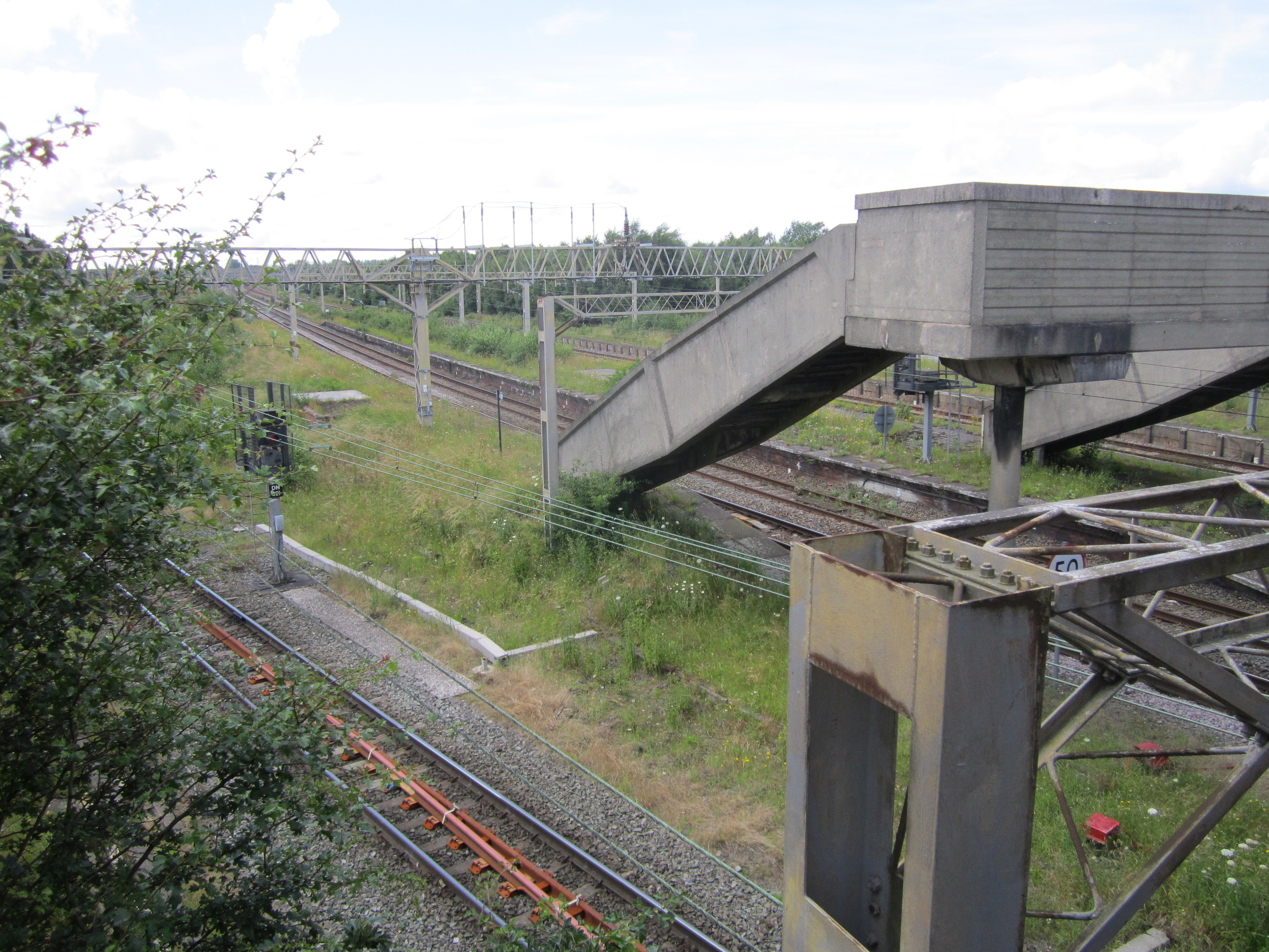 Photo taken at Ditton railway station, Cheshire, England.